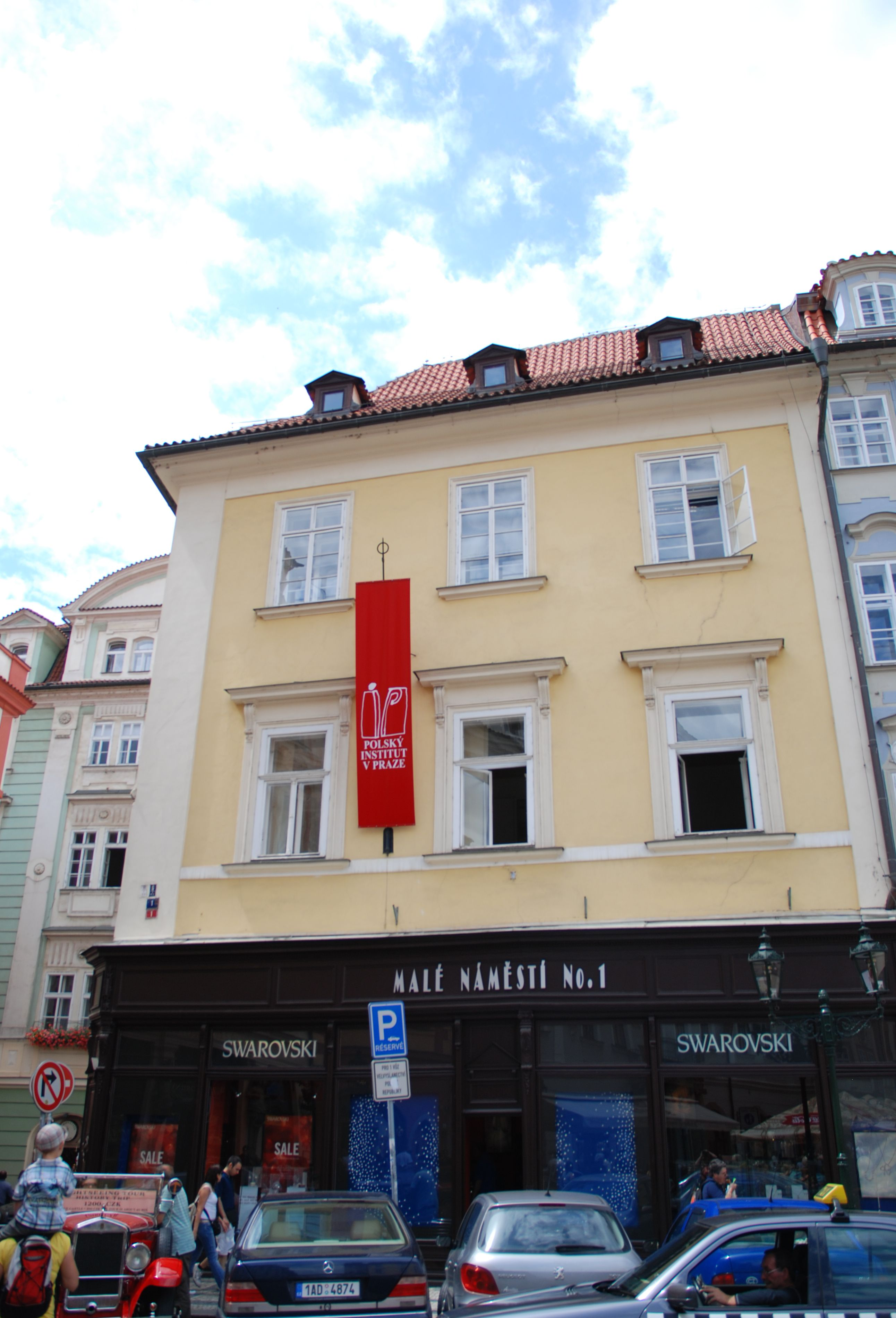 Polish Institute in Prague - polish cultural centre in Prague